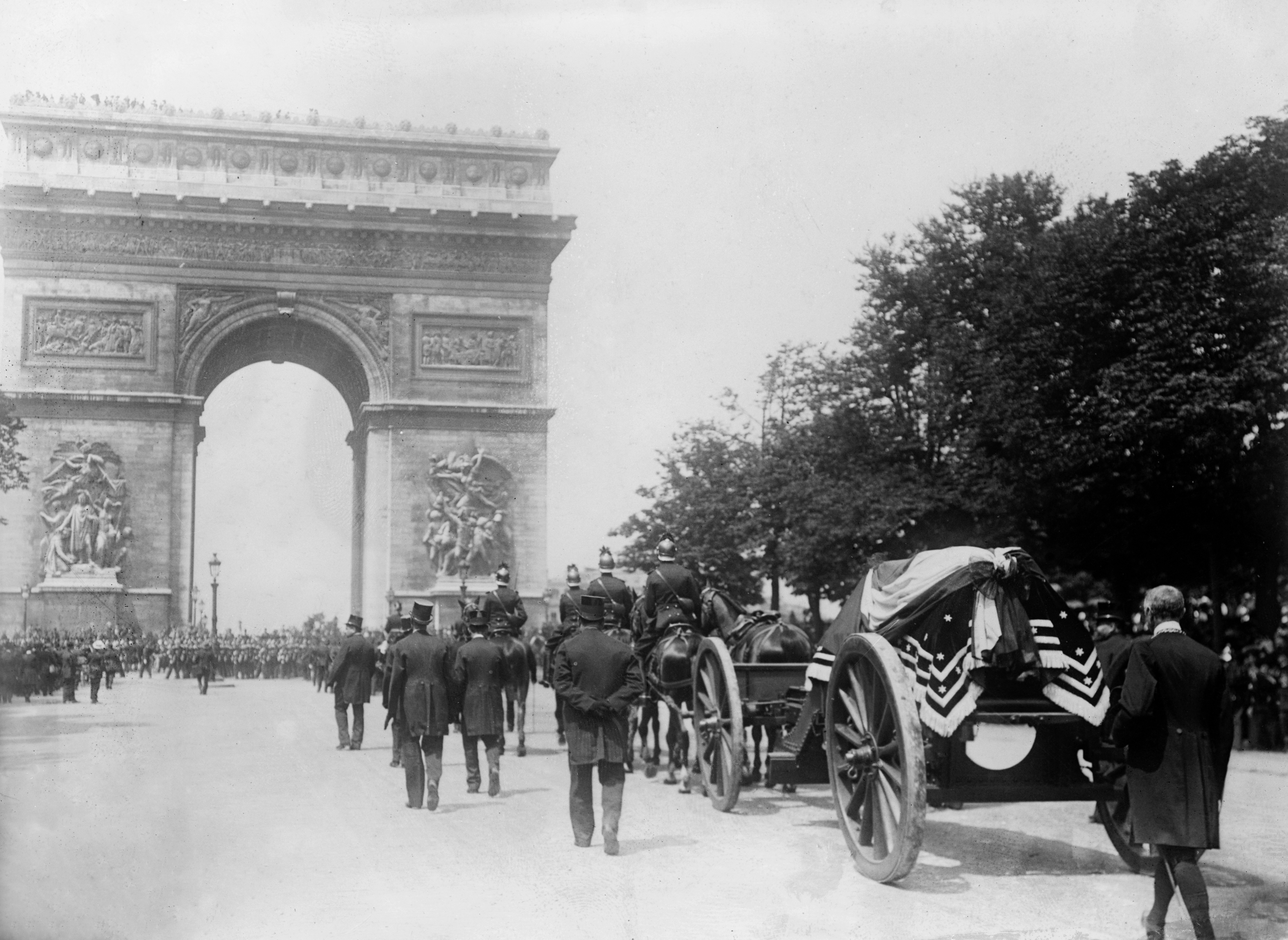 Berteaux Funeral in Champs Elysees, Paris Photo shows state funeral on May 26, 1911 for Maurice Berteaux (1852-1911), French Minister of War.